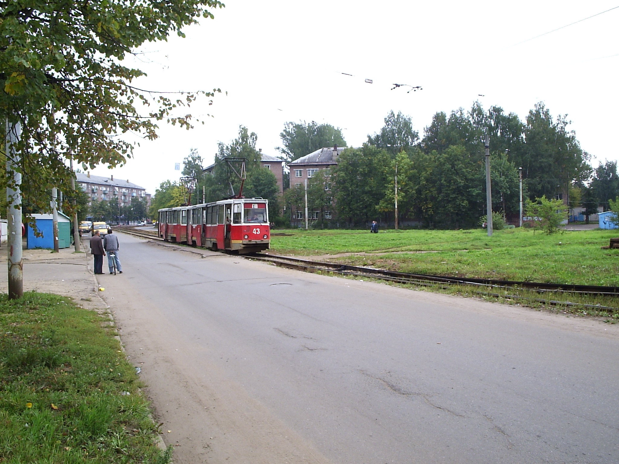 Chkalova street in Yaroslavl. A KTM-5 tram.